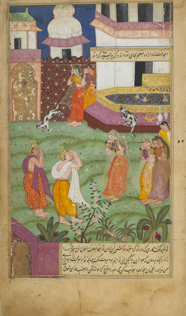 Folio from the Ramayana of Valmiki (The Freer Ramayana), Vol. 1, folio 102; recto: Bharata and Satrughna come to console Kausalya; verso: Bharata, Satrughna, and Vasistha perform the funeral rites of Dasaratha 1597-1605 Kala Pahara , (Indian, Mughal dynasty Opaque watercolor, ink, and gold on paper H: 22.7 W: 13.5 cm Northern India Gift of Charles Lang Freer F1907.271.102